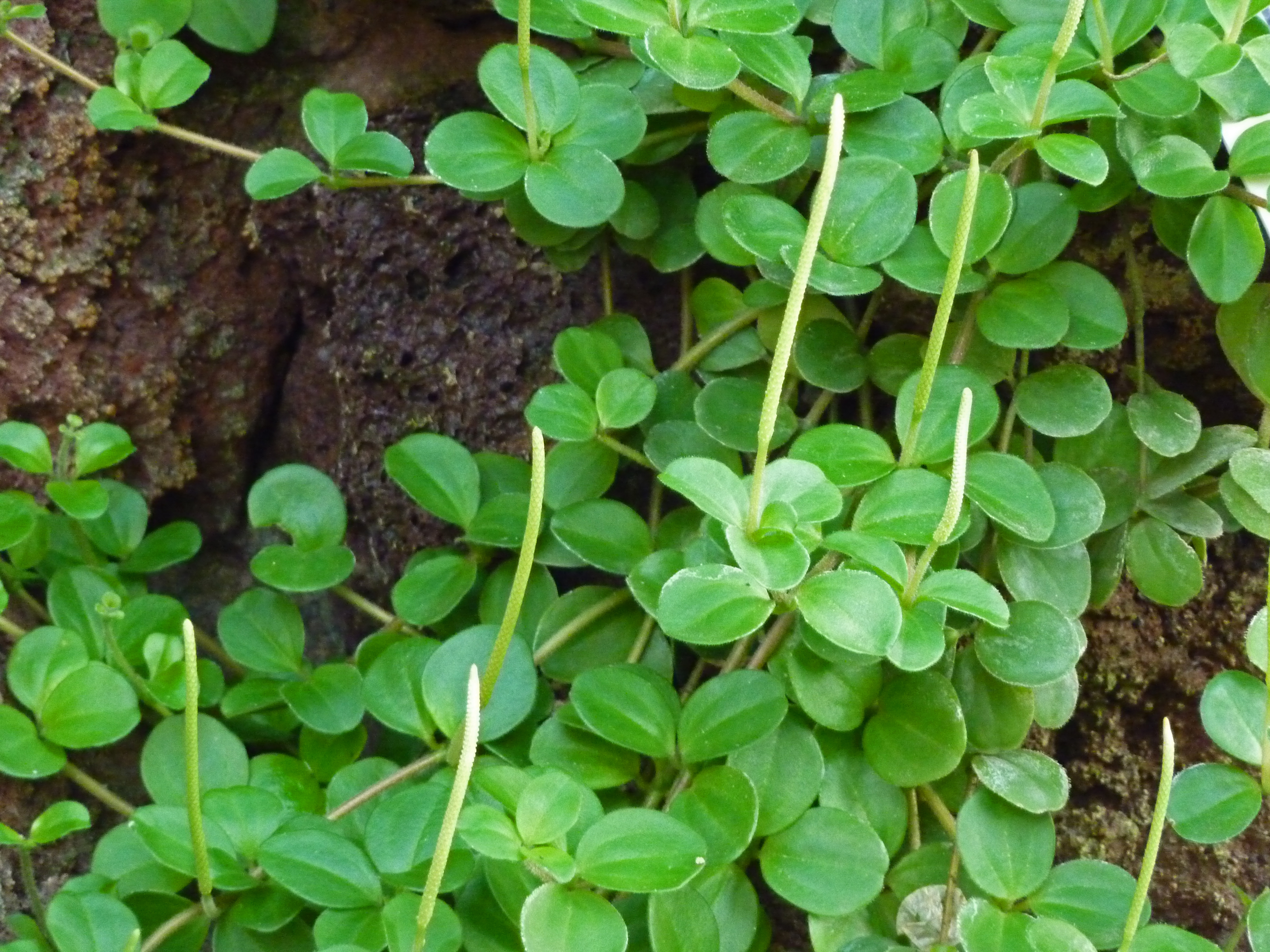 Peperomia trifolia in the Botanical Garden, Berlin